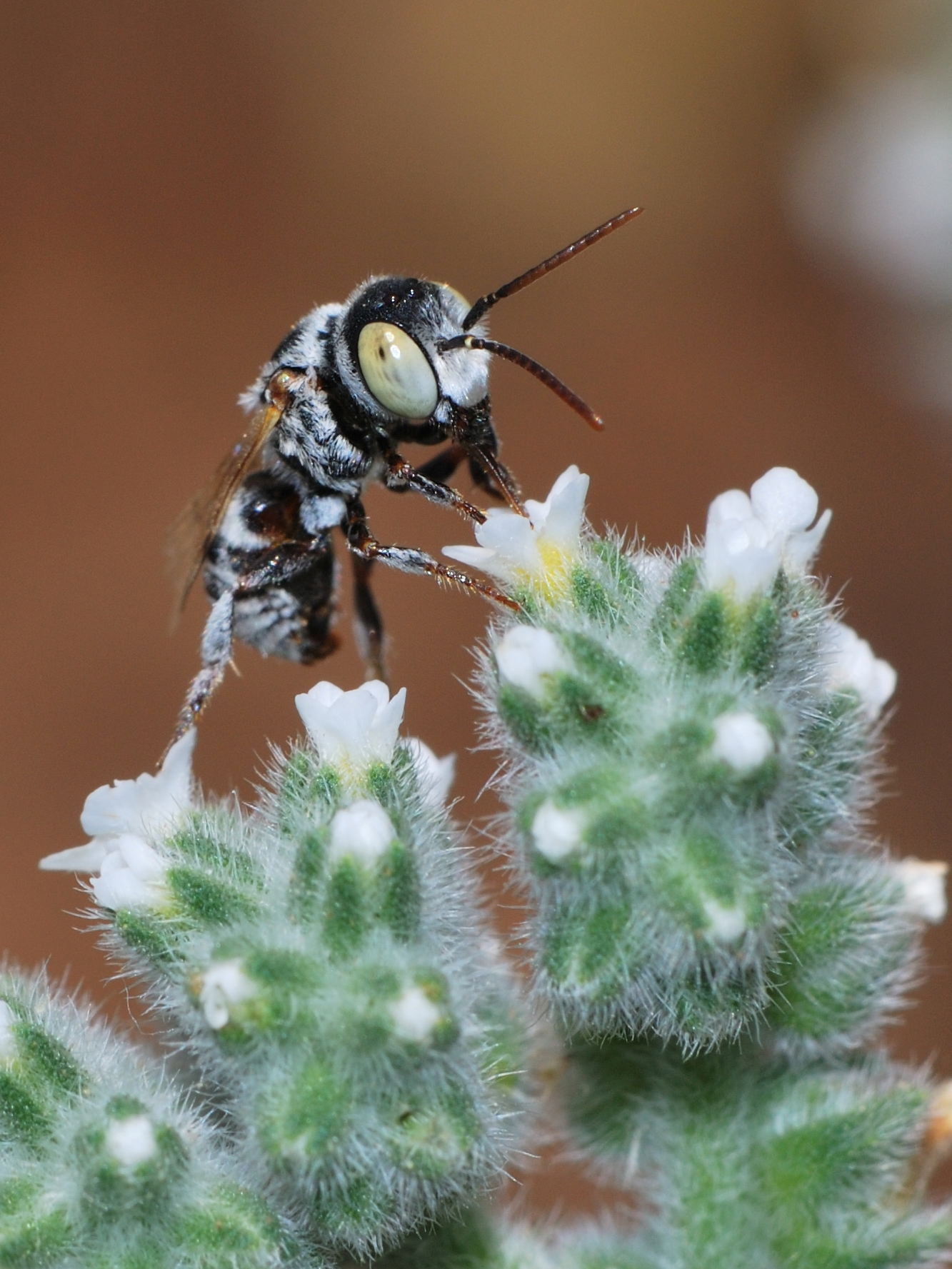 Haetosmia vechti, male foraging on Heliotropium, Mevo Horon, West Bank, June 22, 2011. Det. Andreas Mueller 2011.